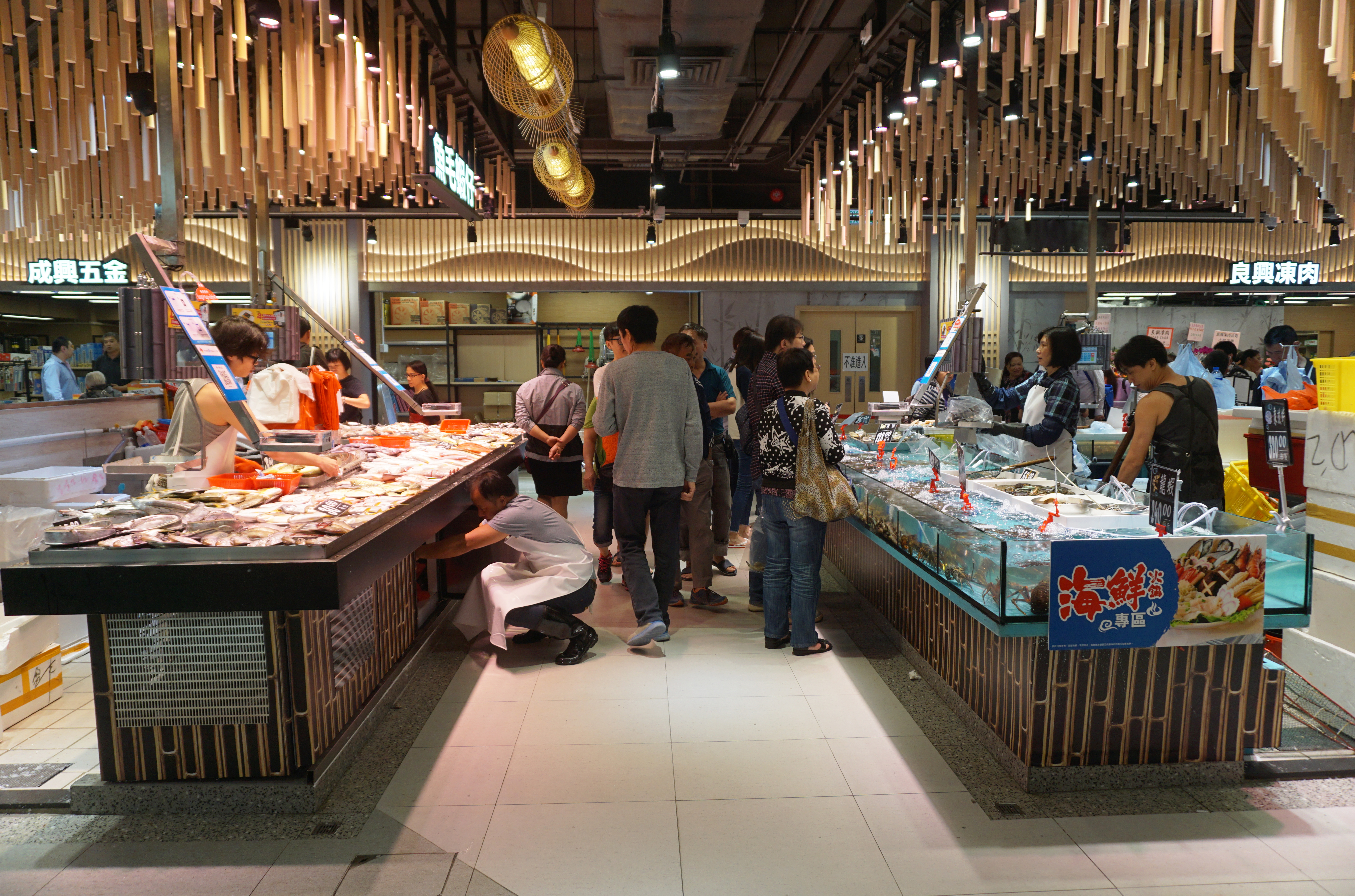 Food Town in Chuk Yuen, Hong Kong.